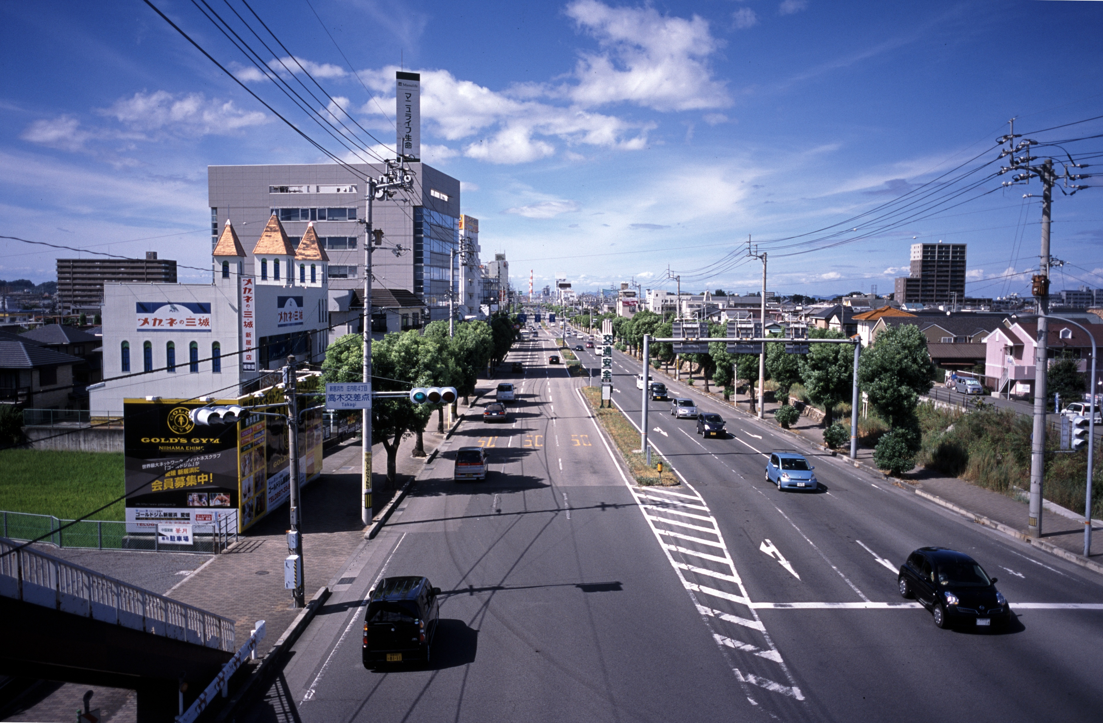 Ehime Pref. Route 11 in Niihama, Ehime pref., Japan.